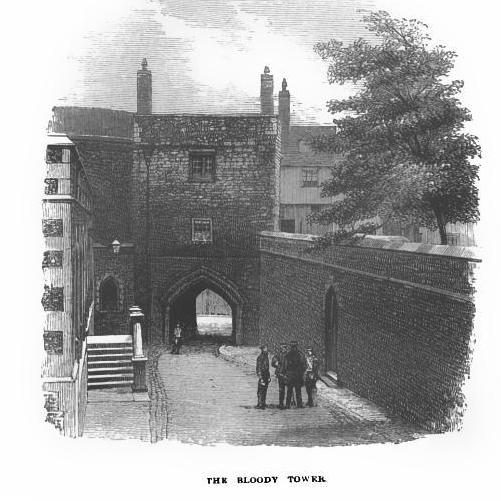 Tower of London: the Bloody Tower in 1871. From the book "Sketches of the Tower of London, as a fortress, a prison, and a palace, and a guide to the armories", published by the Tower of London in 1871.